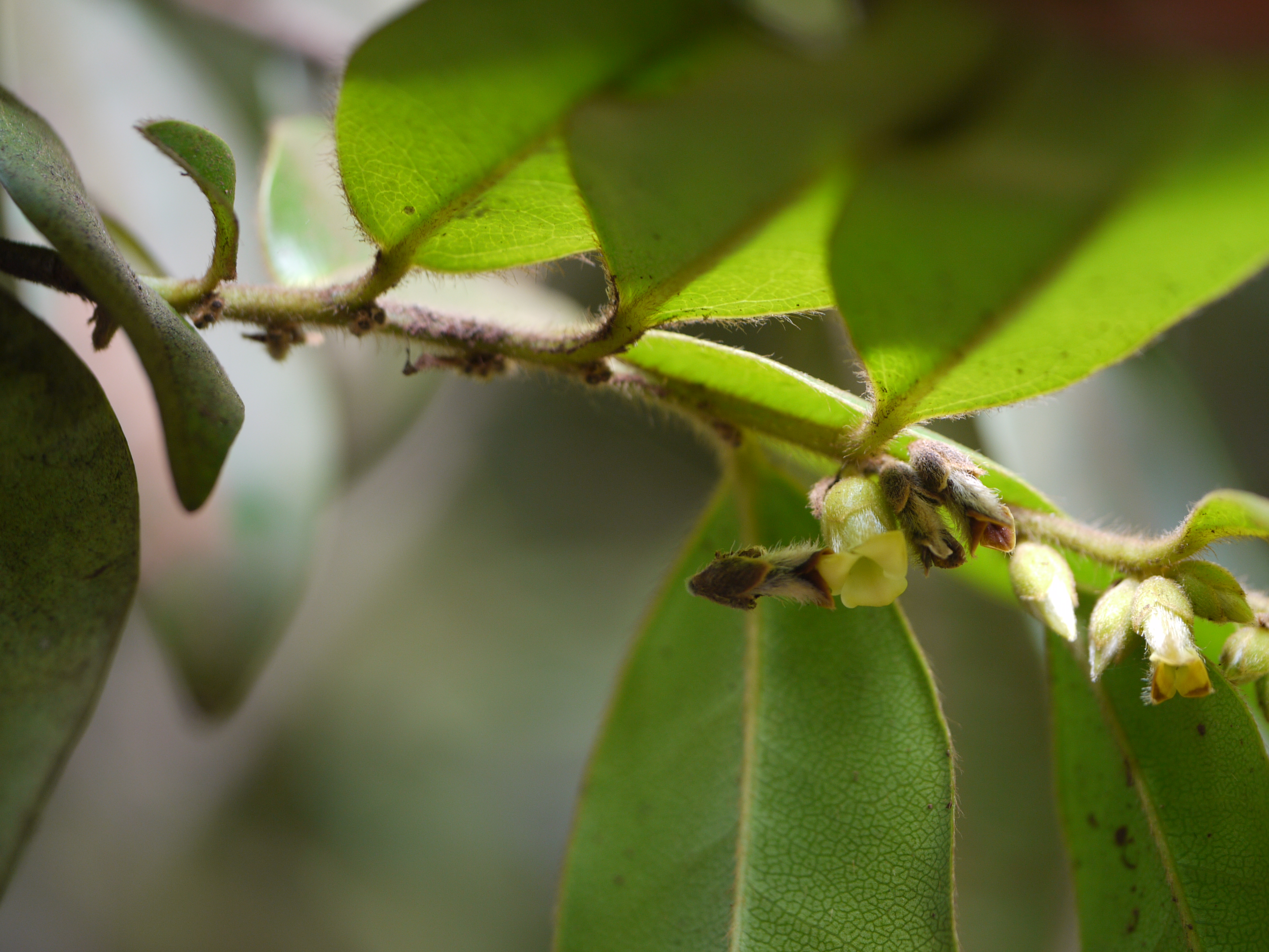 Ebenaceae (ebony family) » Diospyros angustifolia dy-oh-SPY-ros or dy-oh-SPEE-ros -- wheat (fruit) of the gods an-gus-tee-FOH-lee-uh -- narrow leaf commonly known as: narrow-leaved ebony tree • Kannada: ಕರಿ kari • Konkani: रक्त रोडा rakta roda • Marathi: रक्त रोडा rakta roda • Telugu: కారుతి karuti Endemic to: central Western Ghats (of India) References: Further Flowers of Sahyadri by S Ingalhalikar • Biotik • Forest Flora of Andhra Pradesh